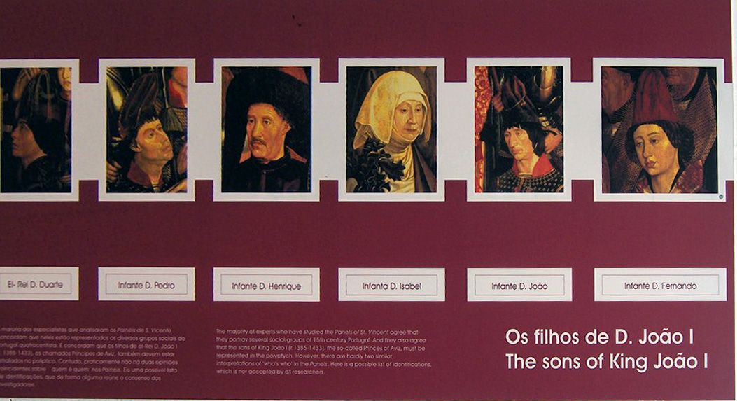 The children of King John I ;Panels of St. Vincent (replica); Museum of the Forte da Ponta da Bandeira; Lagos, Portugal